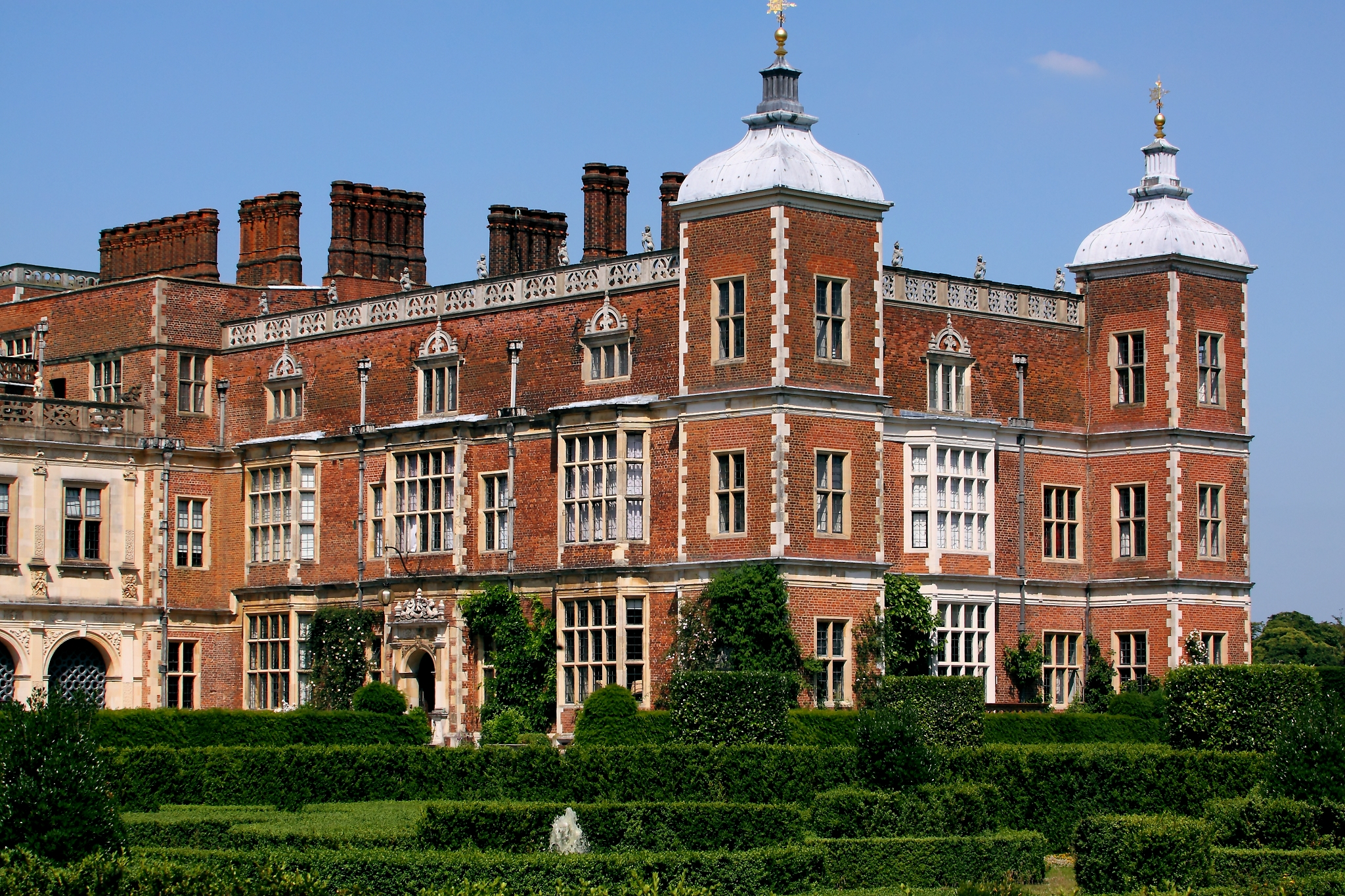 Hatfield House - July 2013